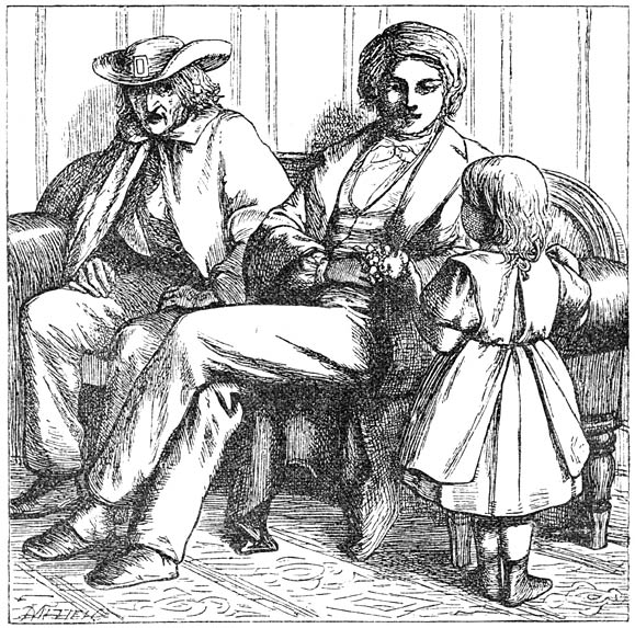 From 'Andersens Sproken en vertellingen' by Hans Christian Andersen, Titia van der Tuuk (ed.) and Simon Jacob Andriessen (trans.). Gebroeders E. & M. Cohen, Nijmegen - Arnhem. Illustrated by Alfred Walter Bayes (1832-1909) and engraved by the Dalziel Brothers (Edward Daziel, 1817-1905; George Daziel, 1815-1902).